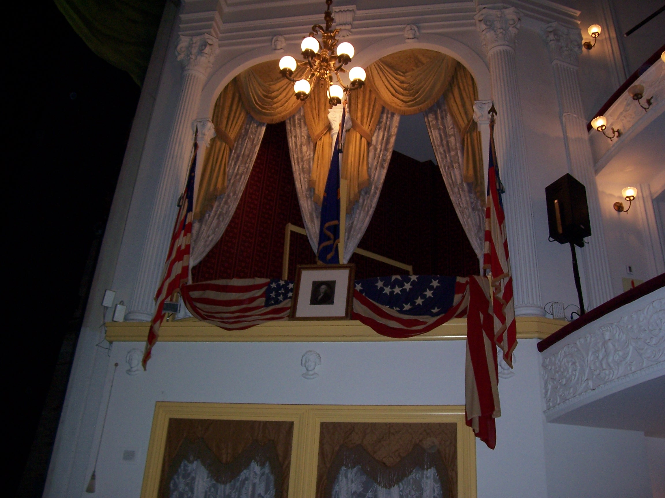 Lincoln's booth at Ford's Theater.